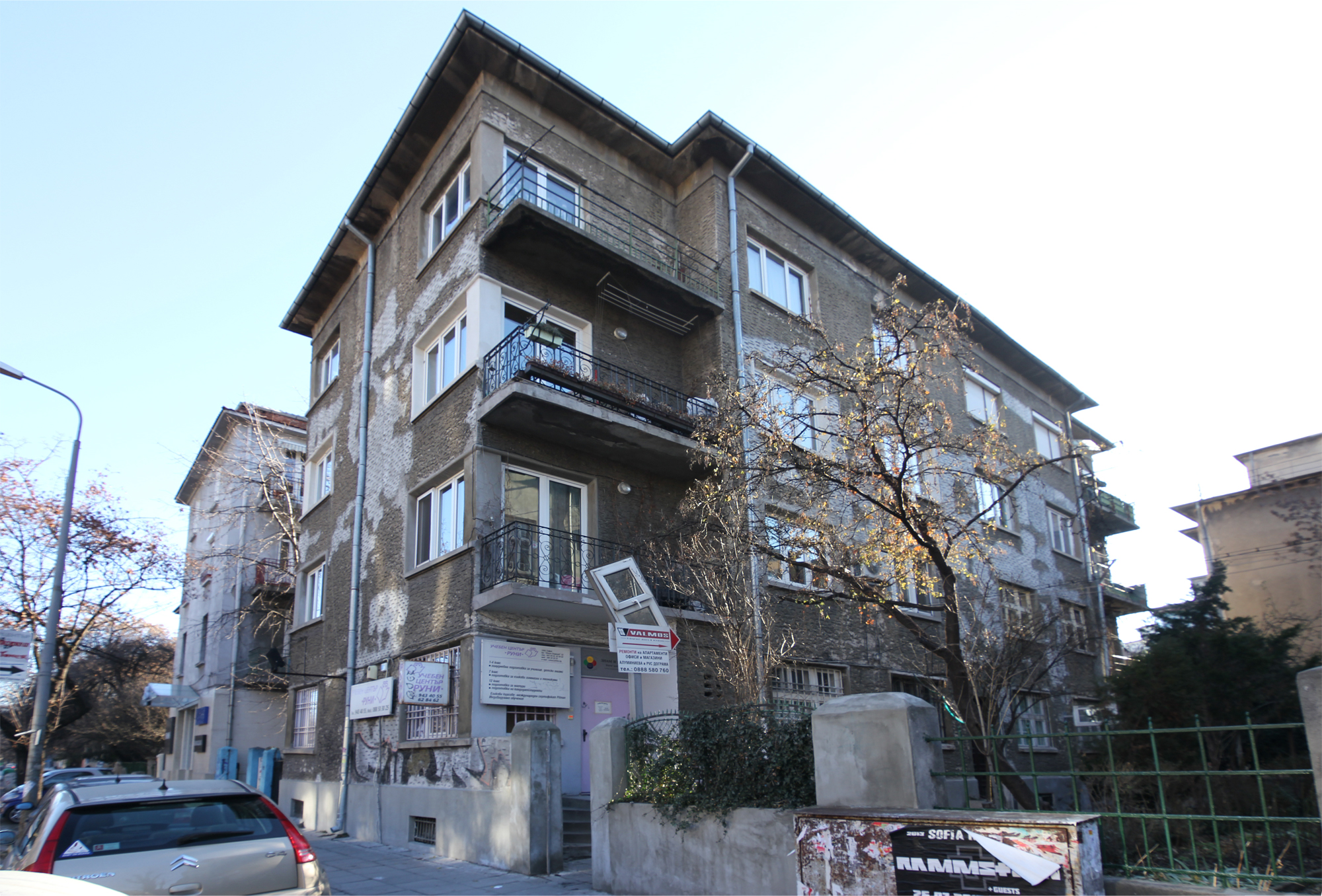 The house, where ret.col. Atanas Pantev was murdered in 1943